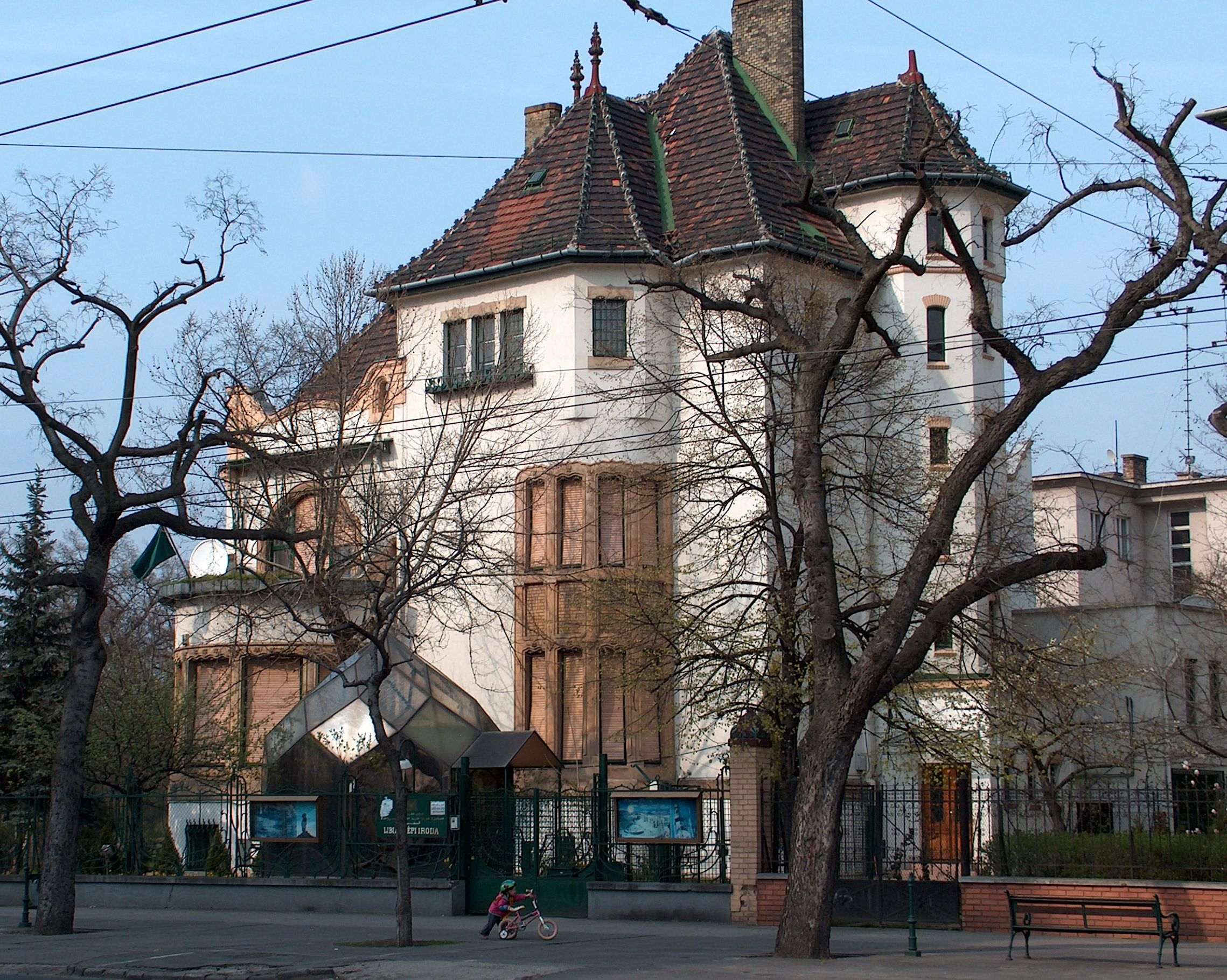 Embassy of Libya - Budapest